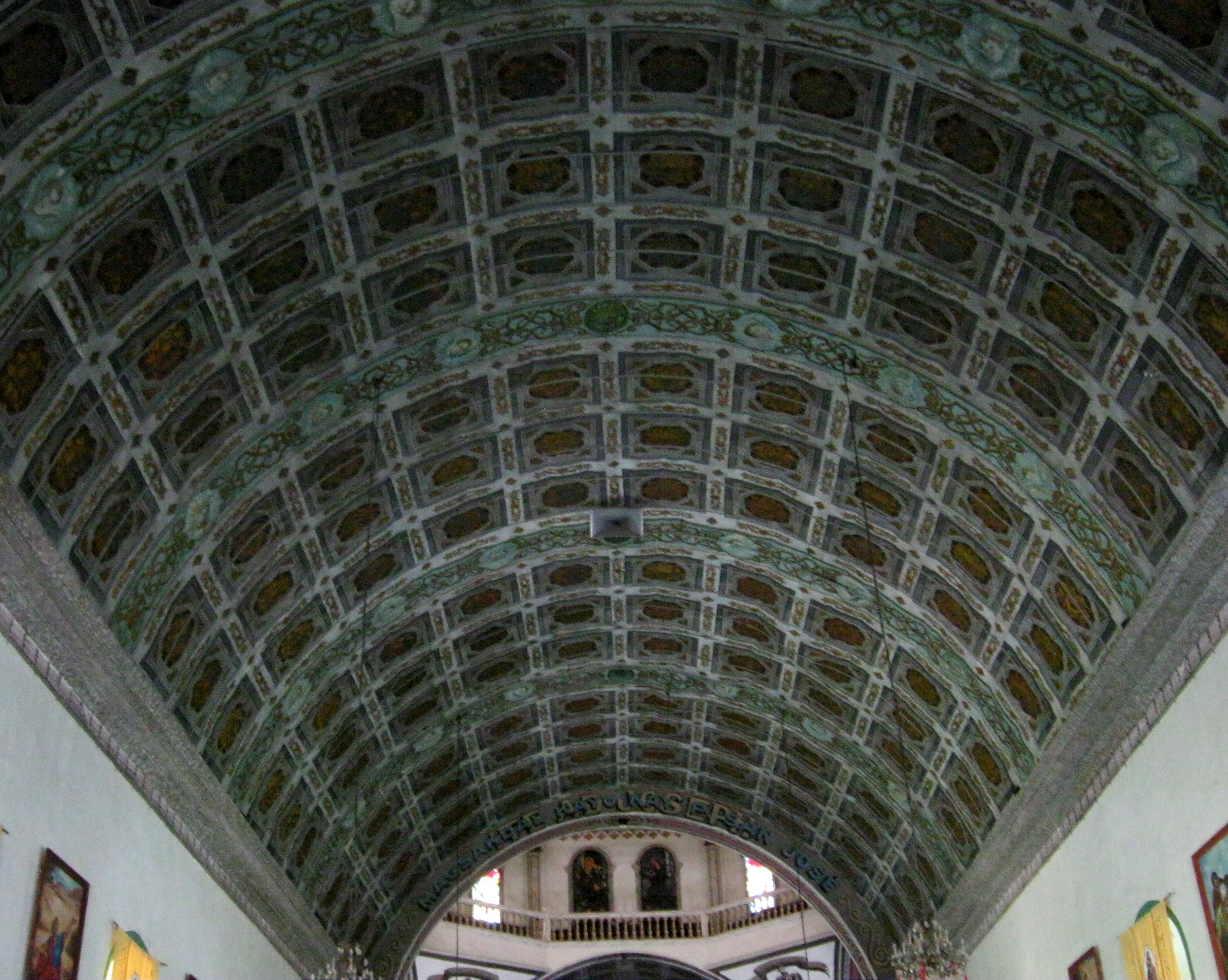 Ceiling of San Jose Church Batangas